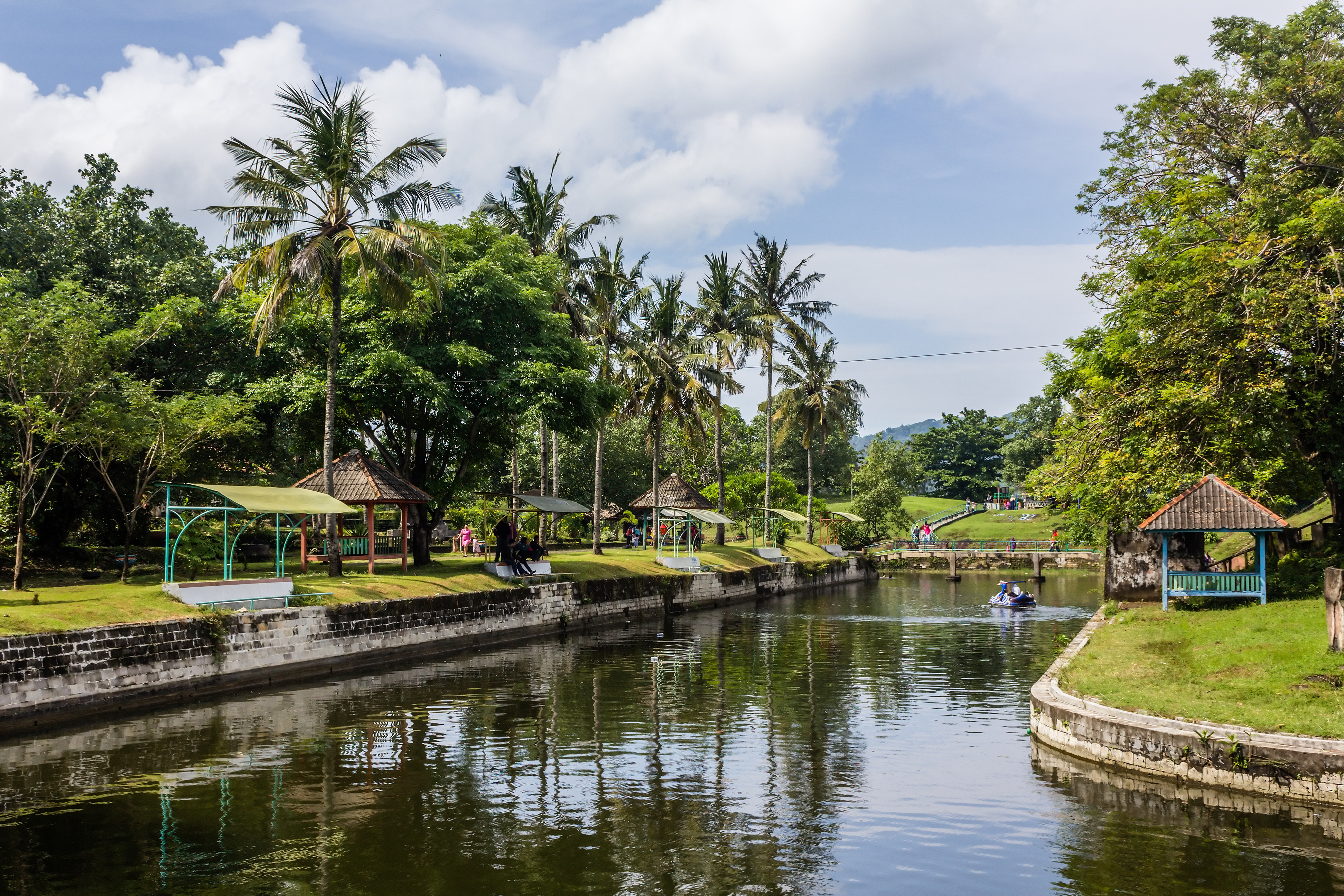 Water recreation area, Benteng Pendem, Cilacap 2015-03-21